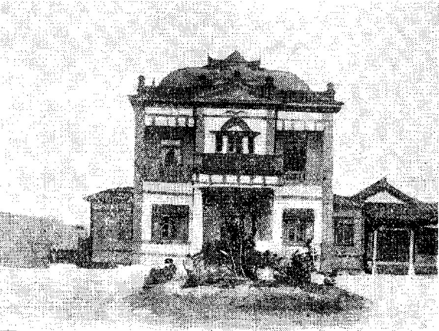 Prince Yi Kang/Yi Geon House